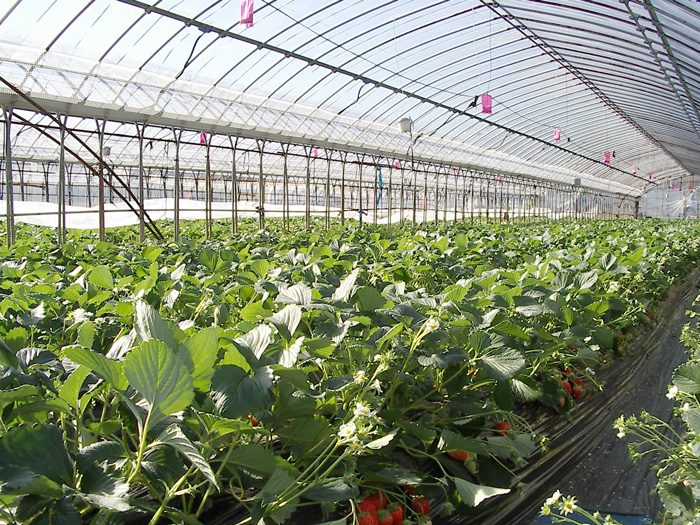 Greenhouse for strawberries in Japan.